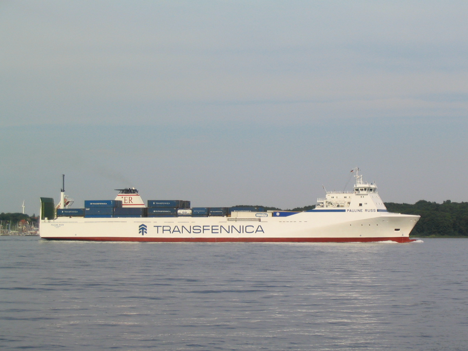 RoRo cargo ferry M/S Pauline Russ on the Kieler Förde